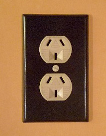 Obsolete grounded (Pre NEMA) US 3 pin power outlet, Australian plugs fit it perfectly.